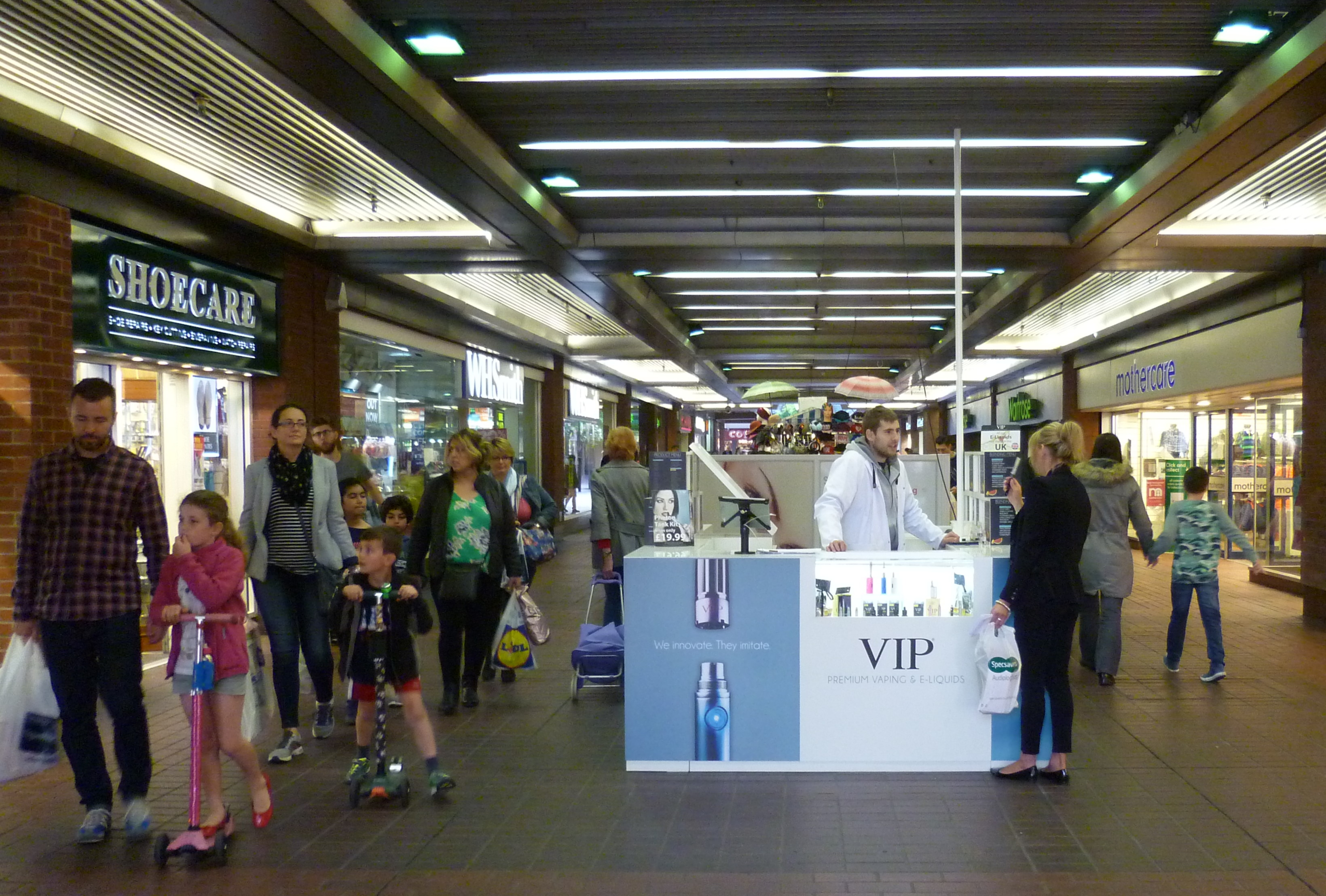 Vaping stand Enfield shopping centre